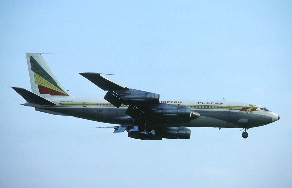 An Ethiopian Airlines Boeing 720-060B at London Heathrow Airport (LHR / EGLL)